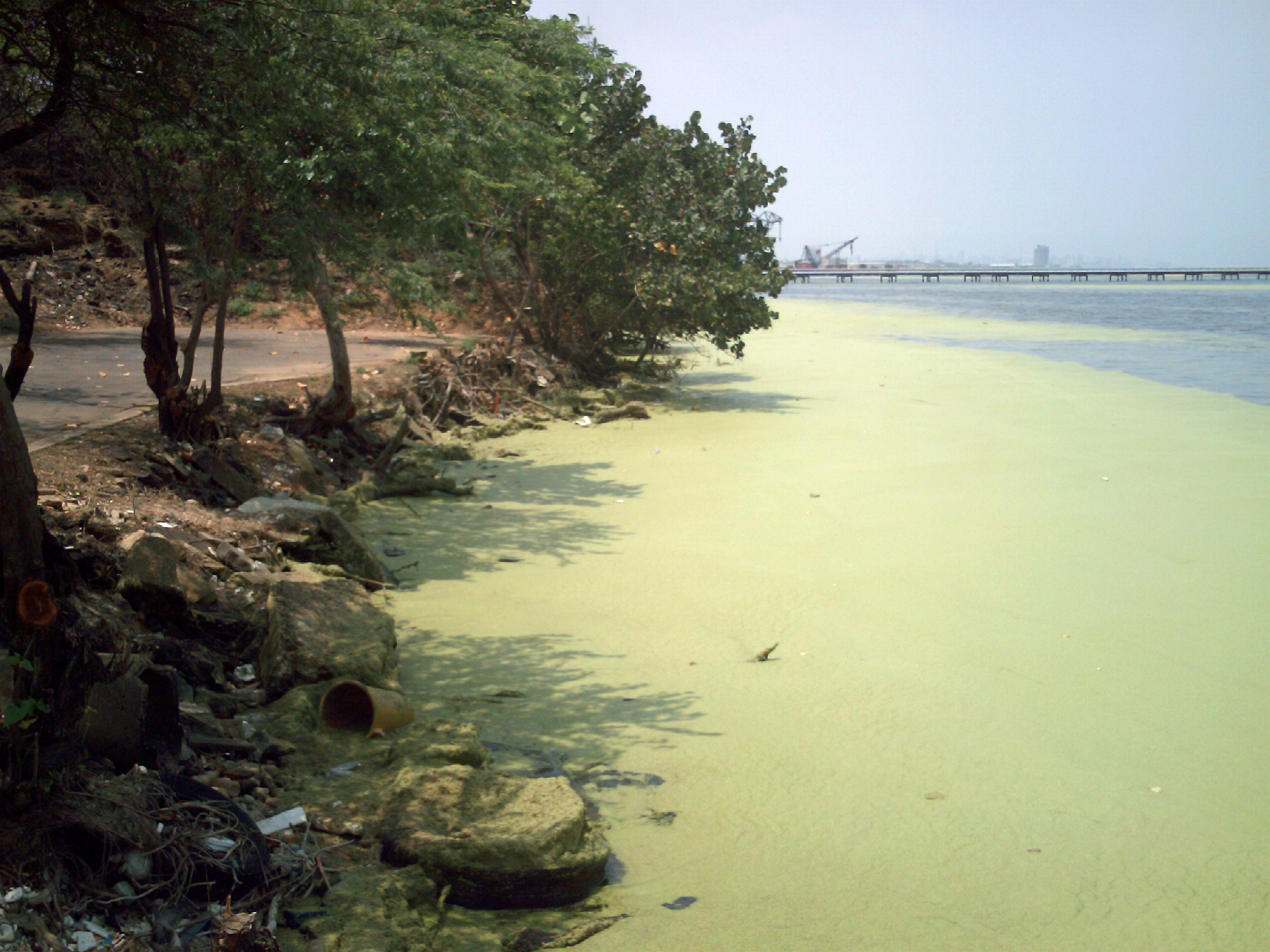 Shoreline of Lake Maracaibo, Venezuela, contaminated by Lemna minor (duckweed) due to nutrient pollution.